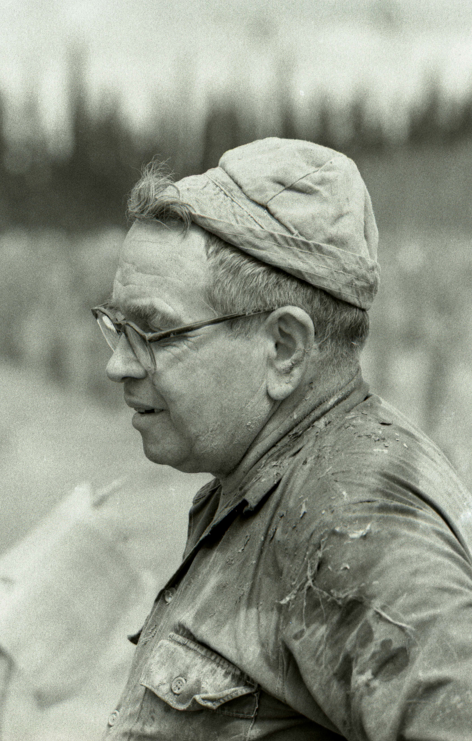 דניאל בן נחום בזמן נטיעת בננות בקיבוץ בית זרע.